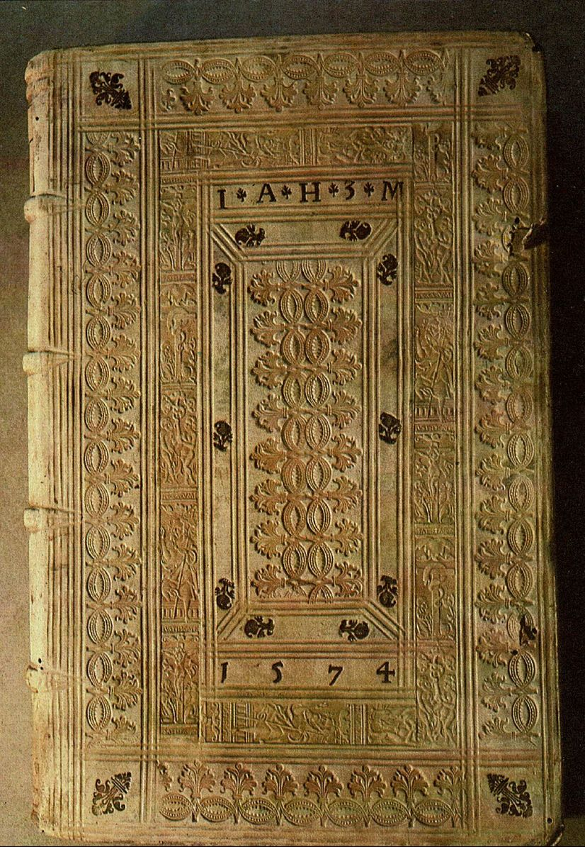 Bützow: Library: Historical book from John Albert I, Duke of Mecklenburg from the Library Bützow, 1574.